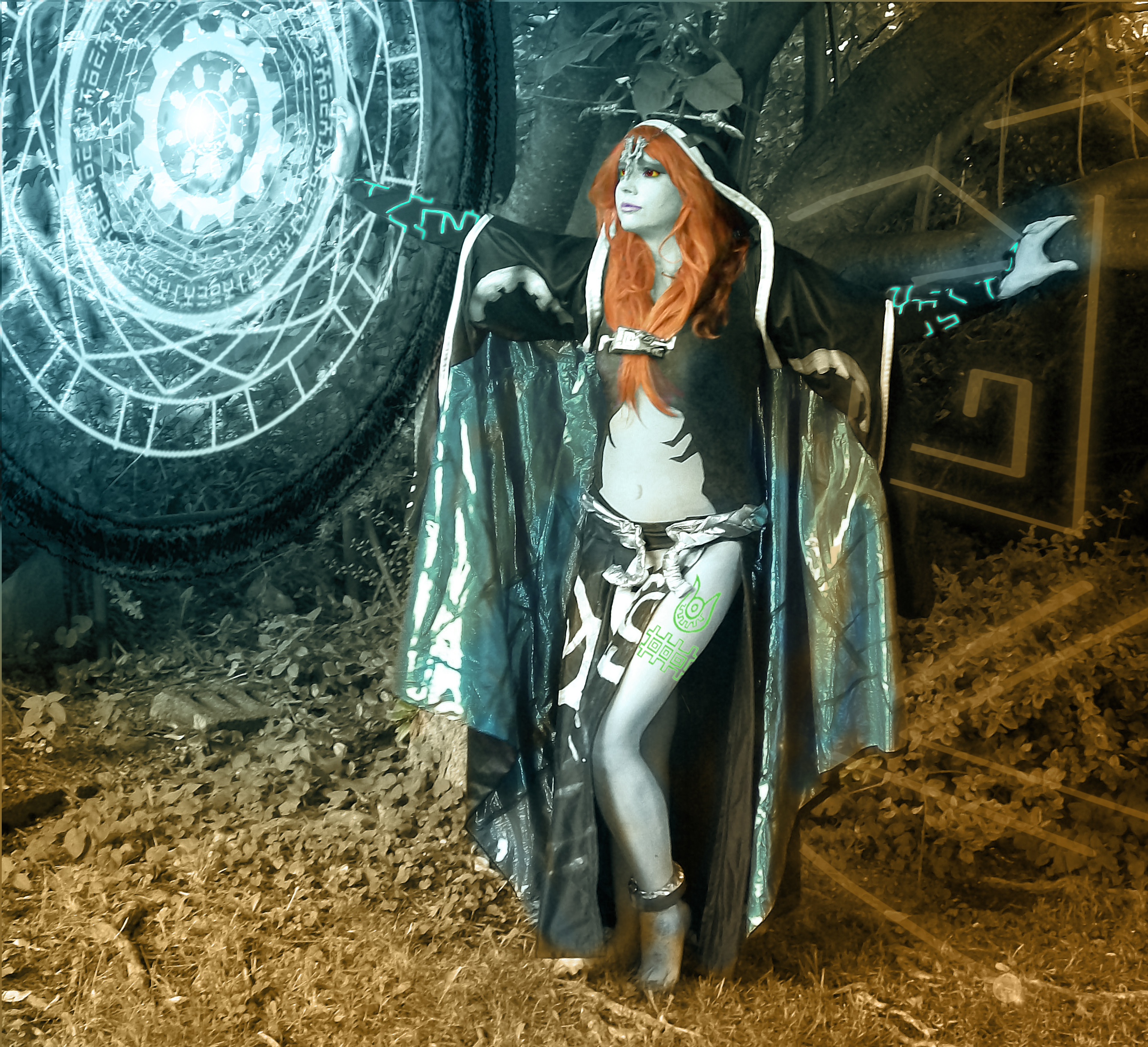 Wallpaper like image that I made using my recent private photoshoot